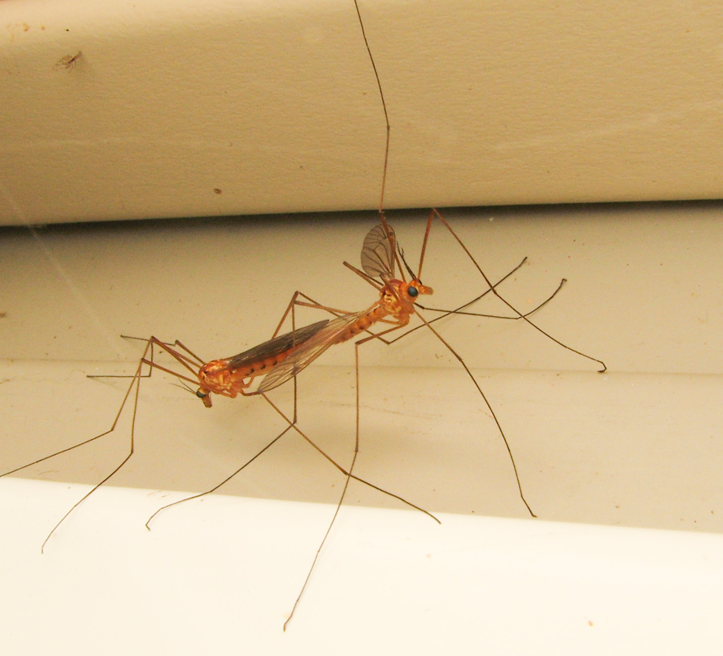 Nephrotoma ferruginea, male, female. Willow Grove, Montgomery County, Pennsylvania, USA.